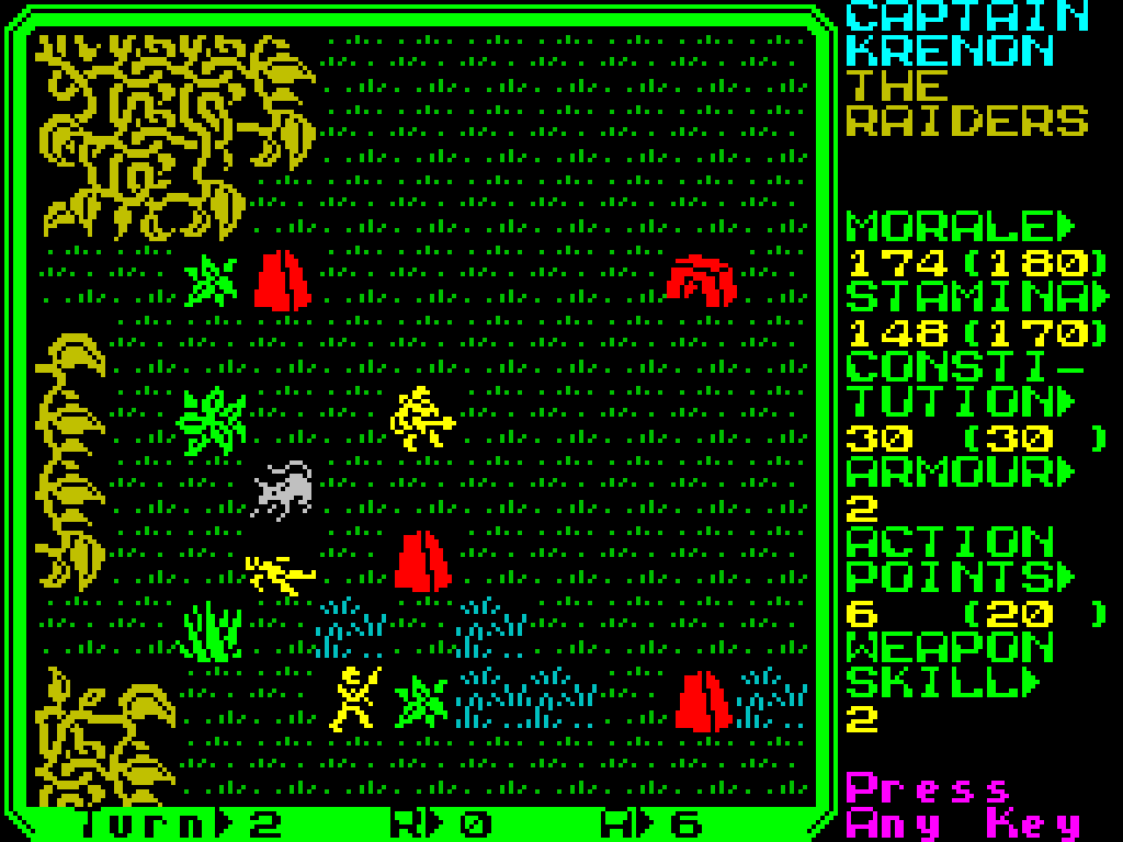 Screenshot of the video game Rebelstar II